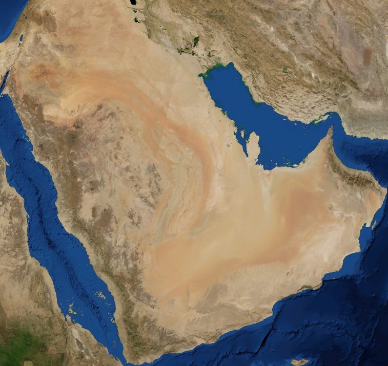 Satellite photograph of the Arabian Desert from NASA World Wind 1.4.